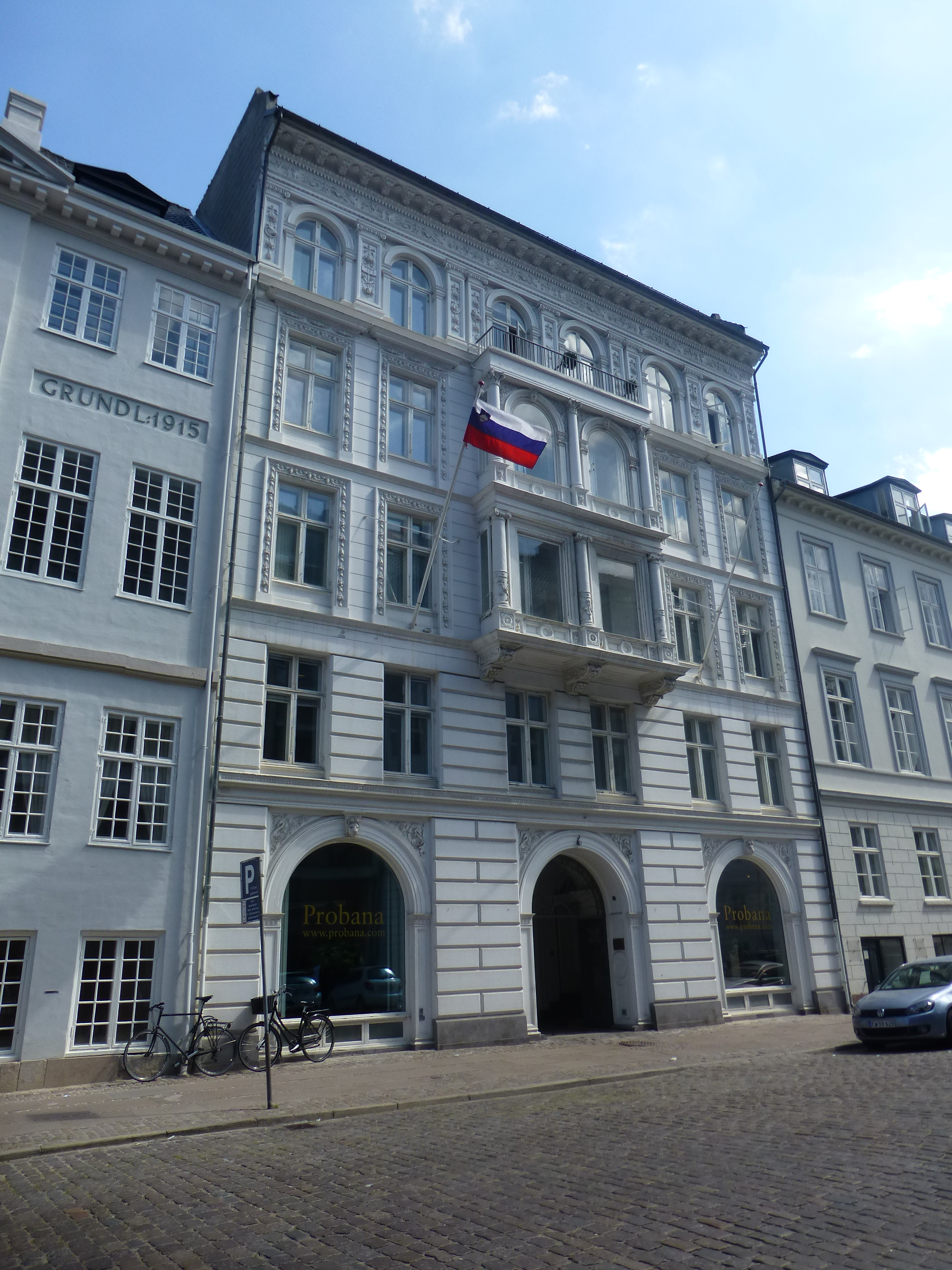 The embassy of Slovenia in the street Amaliegade in Indre By, Copenhagen.